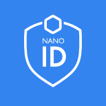 NanoID logo